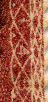 Closeup scan of United Kingdom Penny Red, plate 148, made by User:Stan Shebs